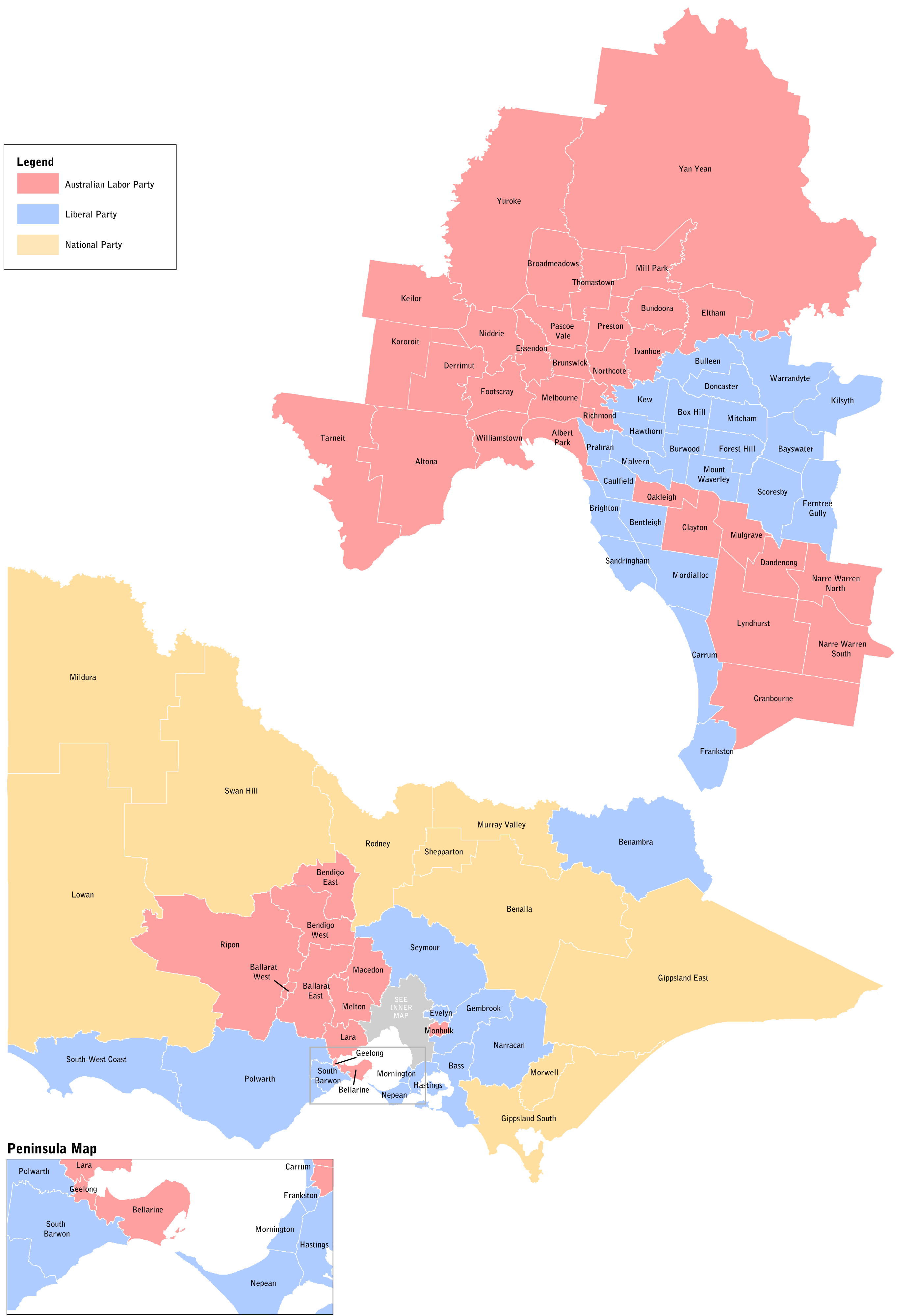 Map of election results following the Victorian state election, 2010, held on 27 November.